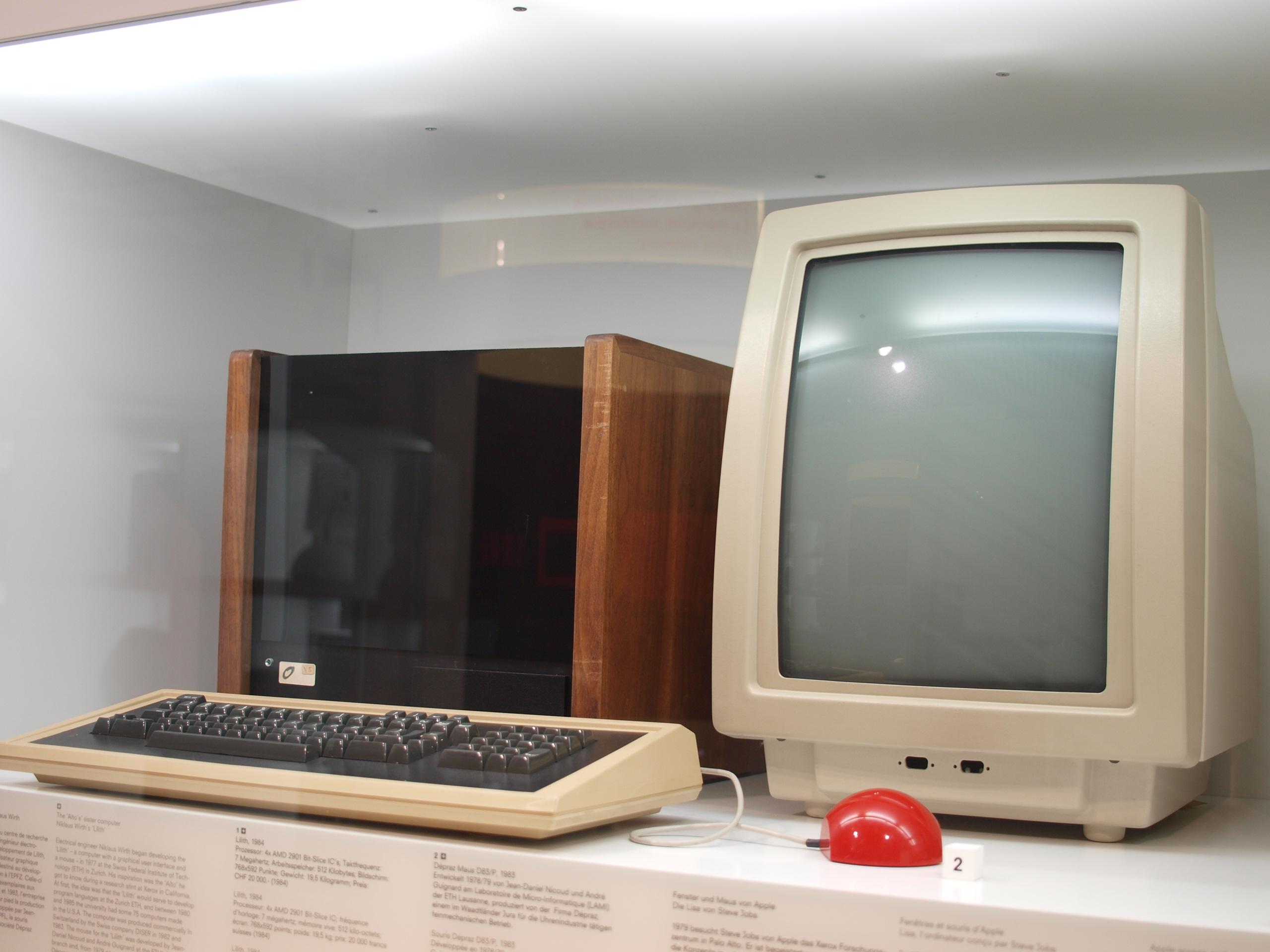 First Swiss GUI system - Lilith developed by the group of Niklaus Wirth at ETH Zürich